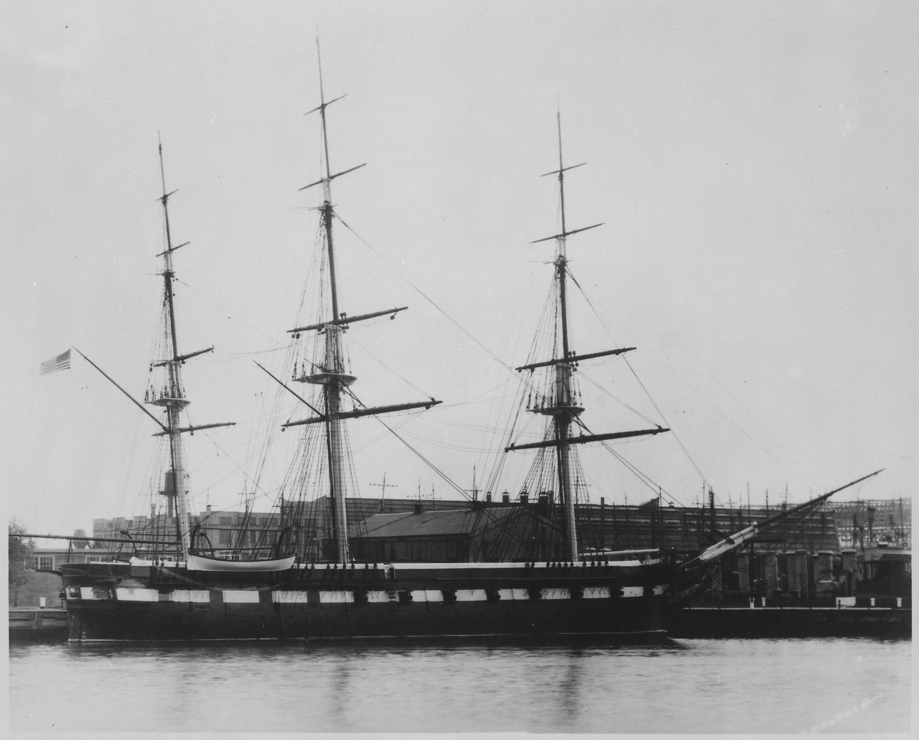 Scope and content: Starboard, at wharf